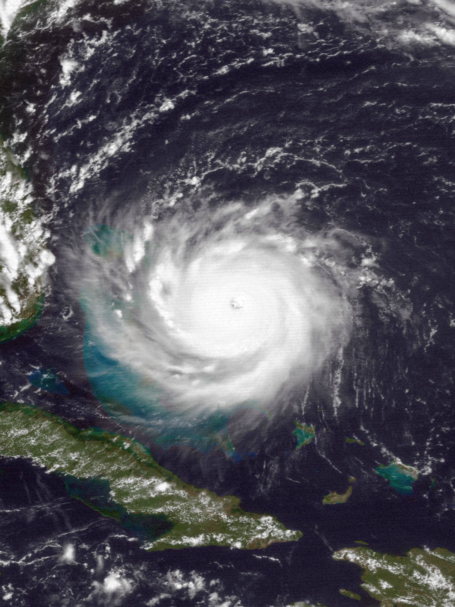 Hurricane Andrew at peak intensity as a category five hurricane on August 23, 1992.